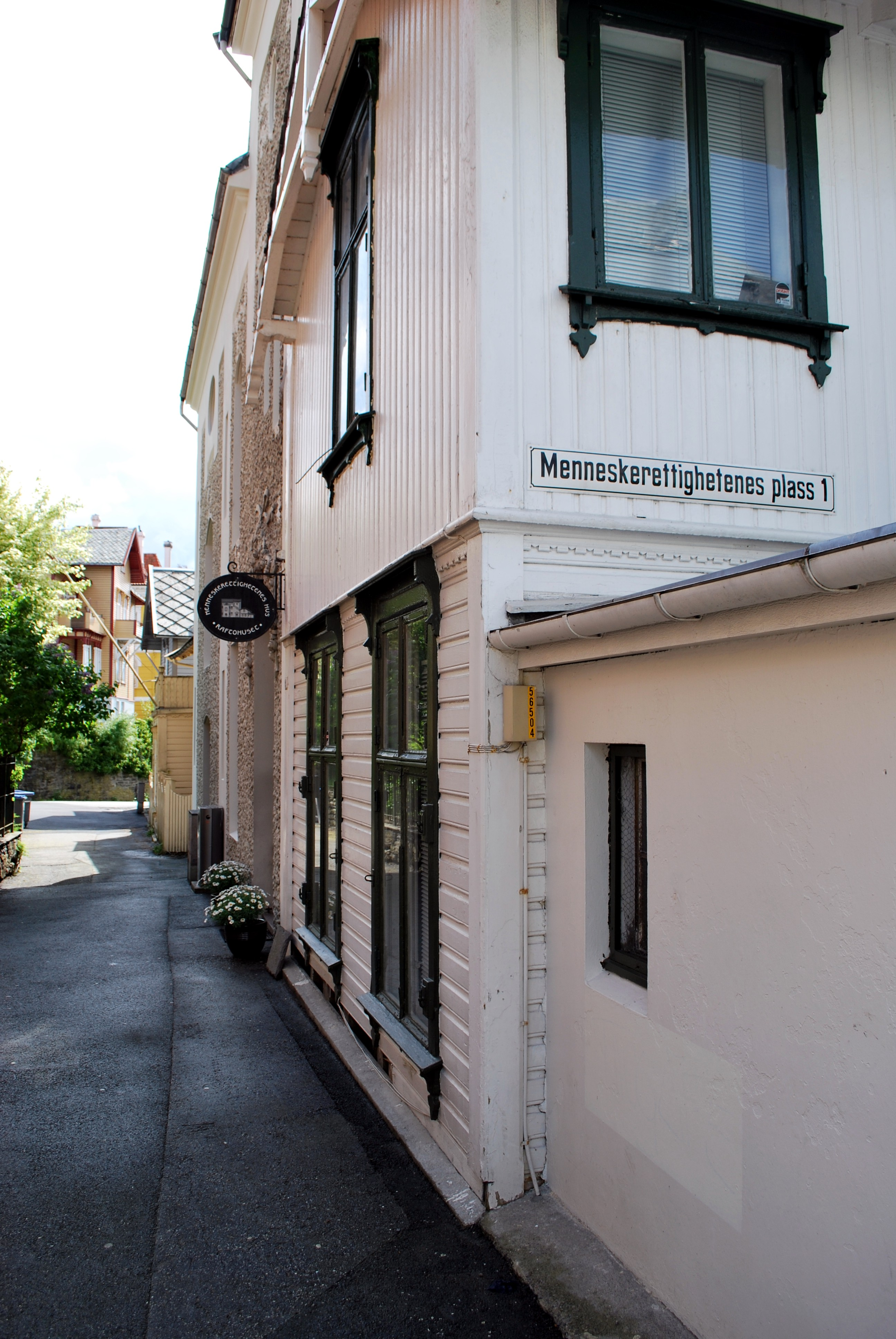 Raftohuset at Menneskerettighetenes plass, Human Rights Plaza, Bergen, Norway.